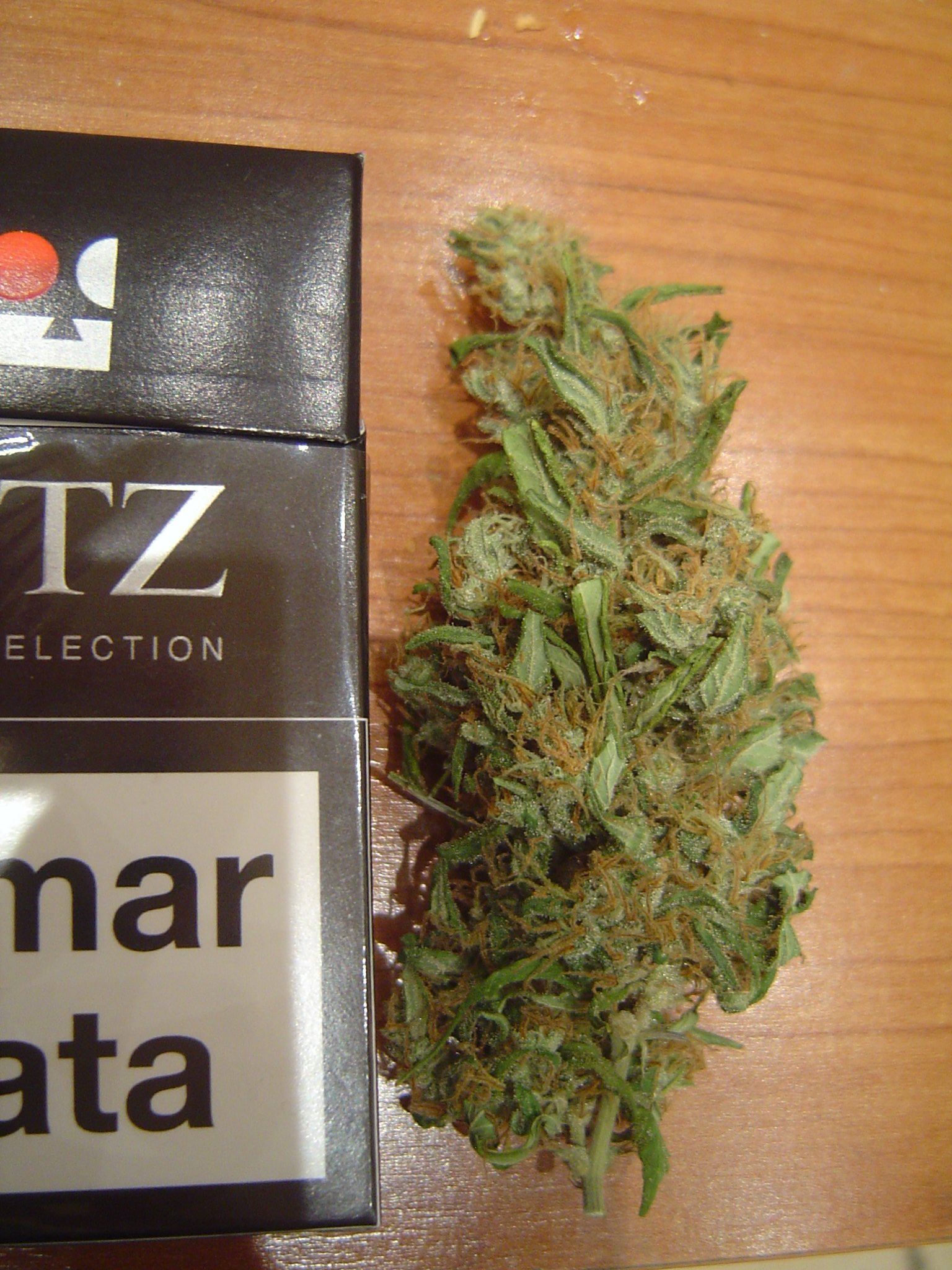 Comparison between a organic sinsemilla bud and a cigarrete pack.